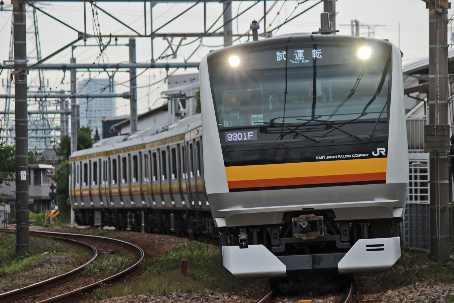 JR East E233-8000 series EMU set N1 undergoing test-running on the Nambu Line